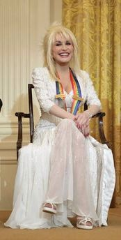 singer Dolly Parton during a reception for the Kennedy Center honorees in the East Room Sunday, Dec. 3, 2006.